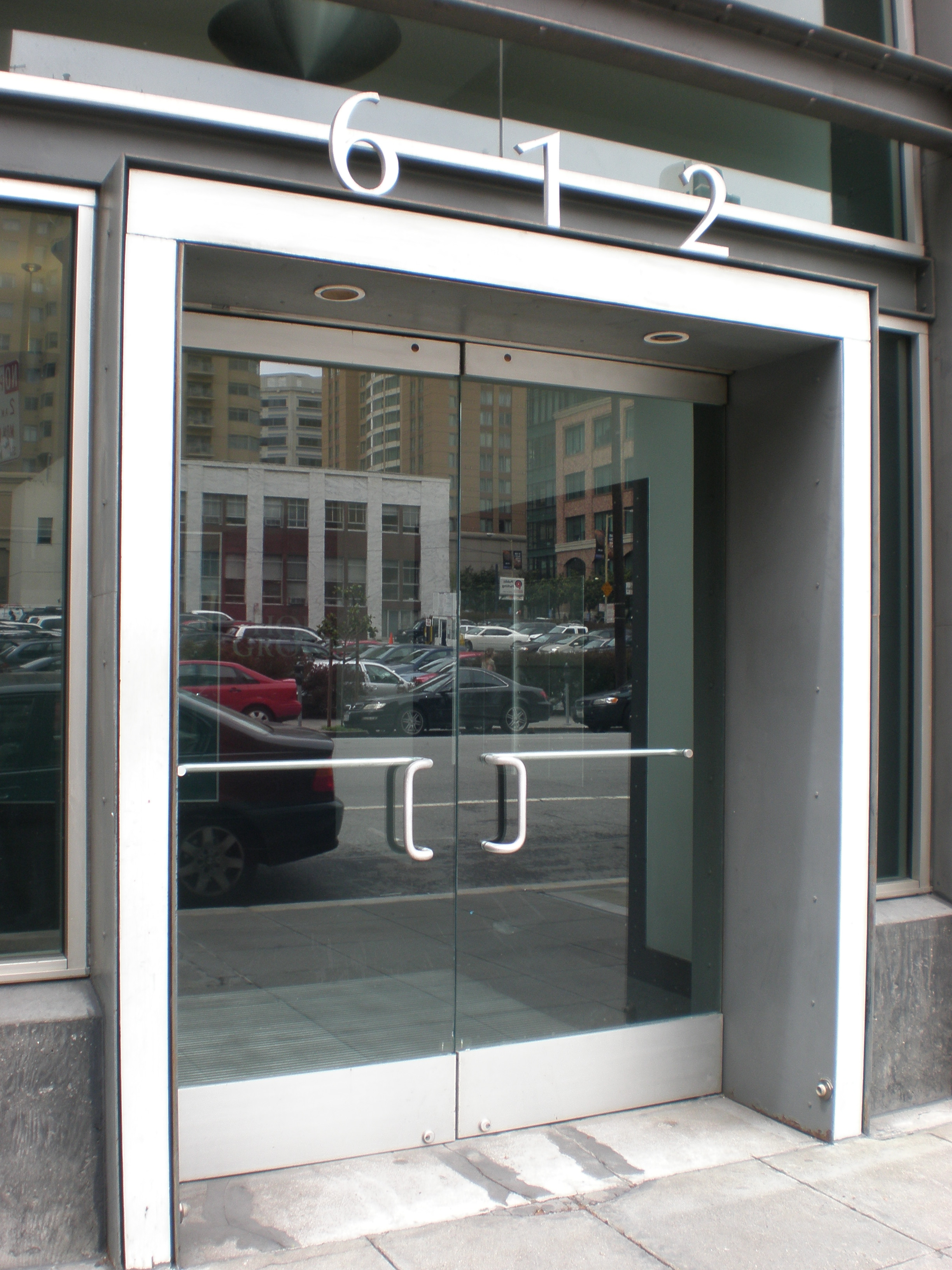 The entrance to 612 Howard Street in San Francisco, California. BitTorrent, Inc. is in Suite 400.